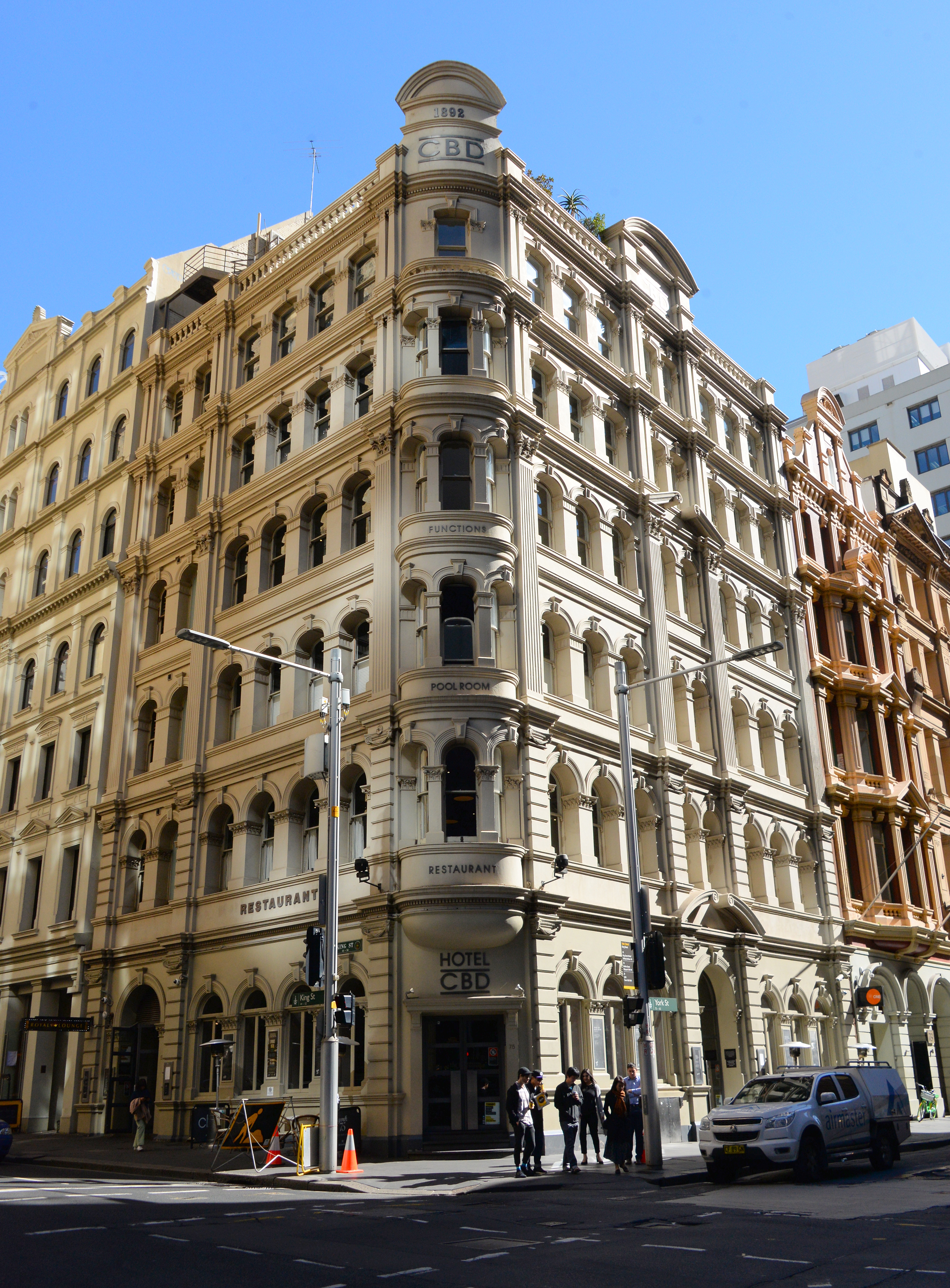 Hotel CBD, where Mert Ney stabbed his second victim; corner King and York Streets, Sydney